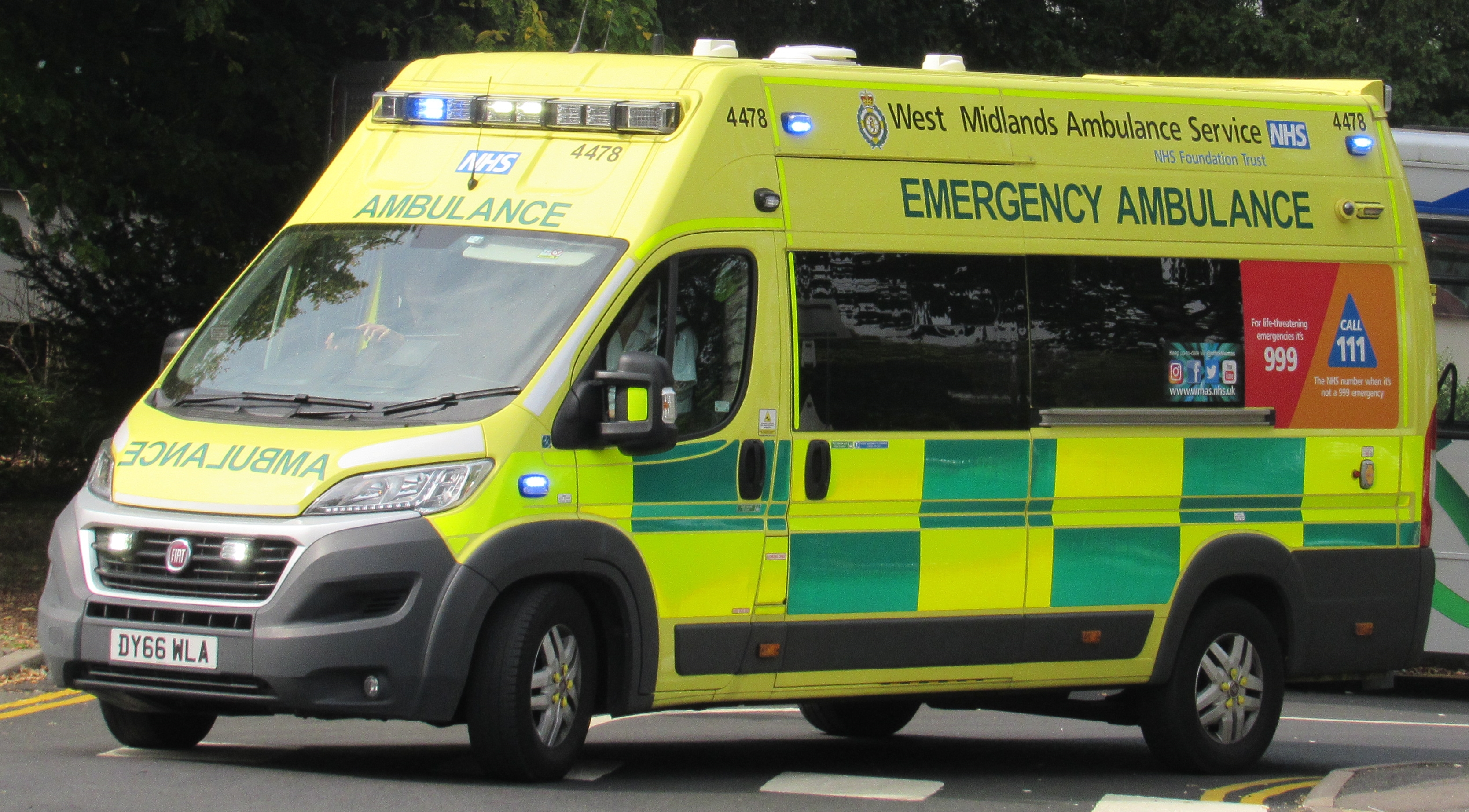 2016 Fiat Ducato 42 Maxi West Midlands Ambulance Service 3.0 Taken in Leamington Spa